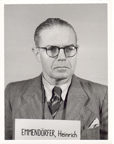 Heinrich Emmendorfer, a witness during the Nuremberg Trials.